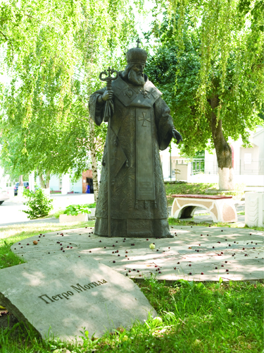 Monument to Peter Mogila erected in Kiev, year 2003. The monument is 2 meters high. Material: bronze. The authors are Oles Sidoruk and Boris Krylov.